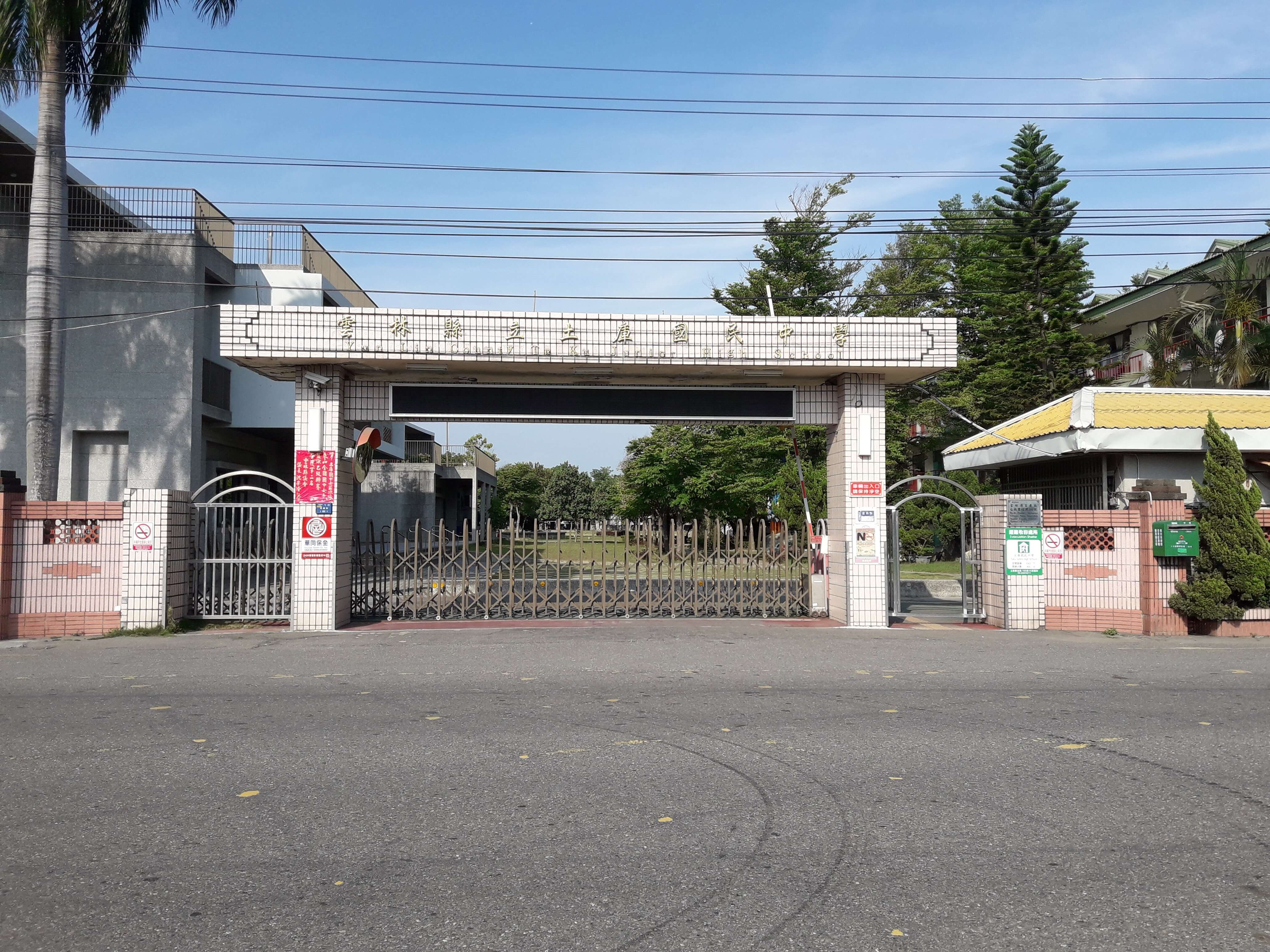 Tuku Junior High School, which located in Tuku Township, Yunlin County, Taiwan. The gate in the picture is its main gate.